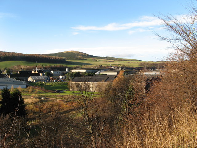 Distillery Complex at Dufftown View of 3 Distilleries at Dufftown. The Distilleries are from the left, Balvenie,in the middle foreground, Kinninvie, and on the right in the distance, Convalmore. The latter is no longer in production.